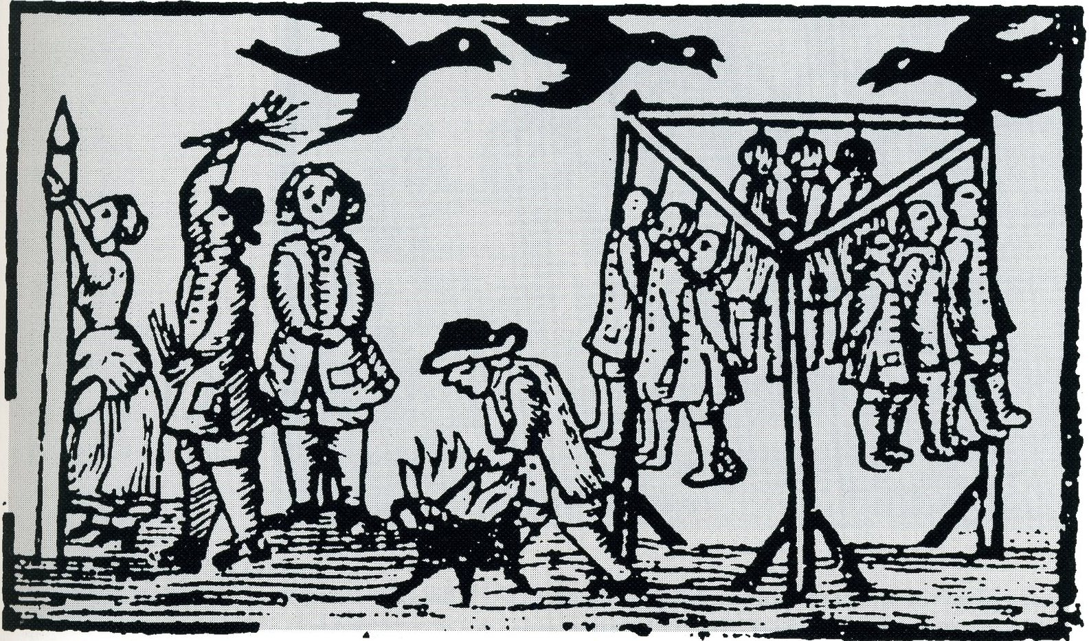 Execution of the "Abolt gang" in at the gallows in Ugledige Vordingborg, Denmark. Nine men were hanged for theft and one woman birched and subsequently branded.